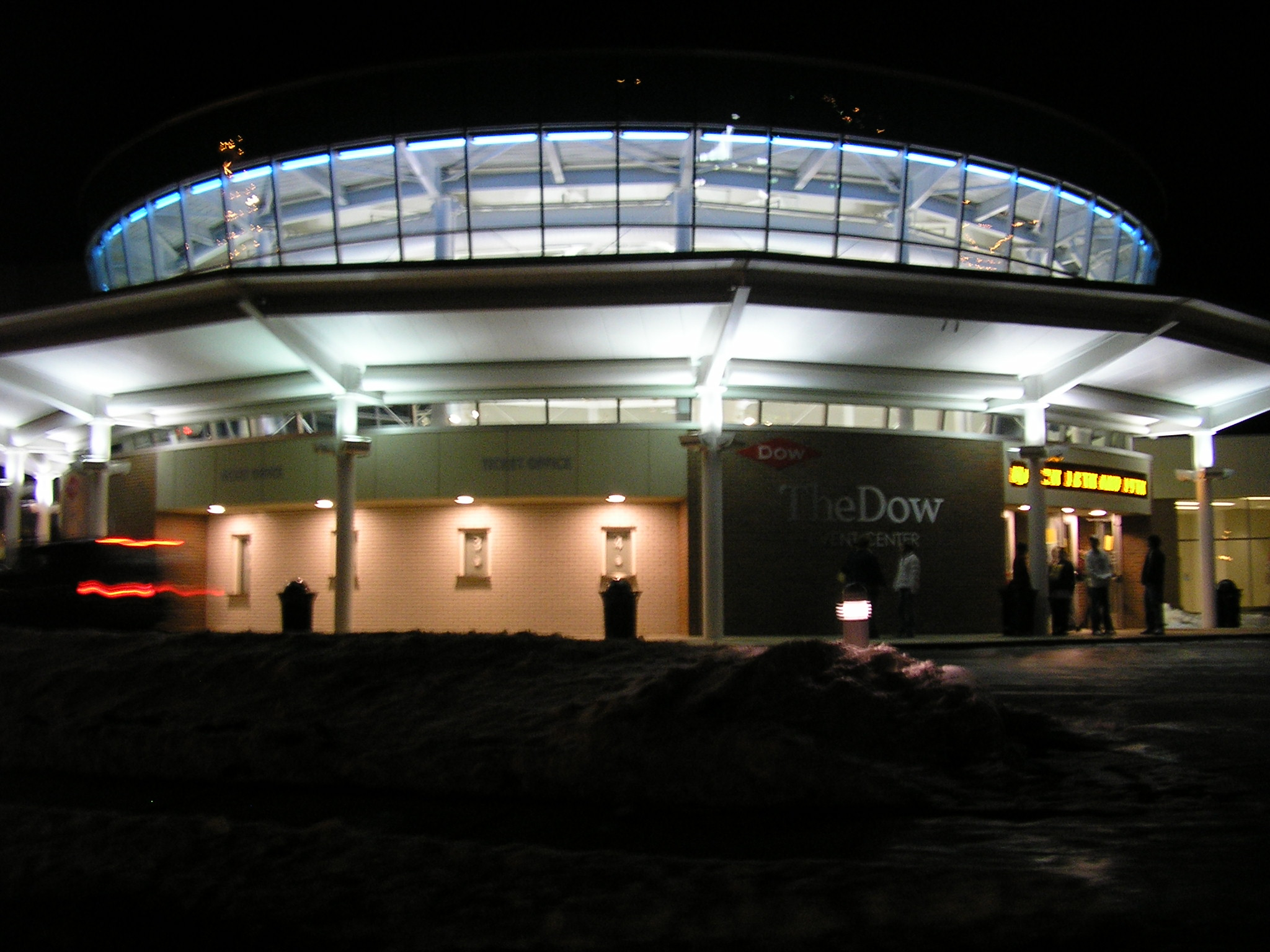 Main entrance of The Dow Event Center in Saginaw, MI at night. .